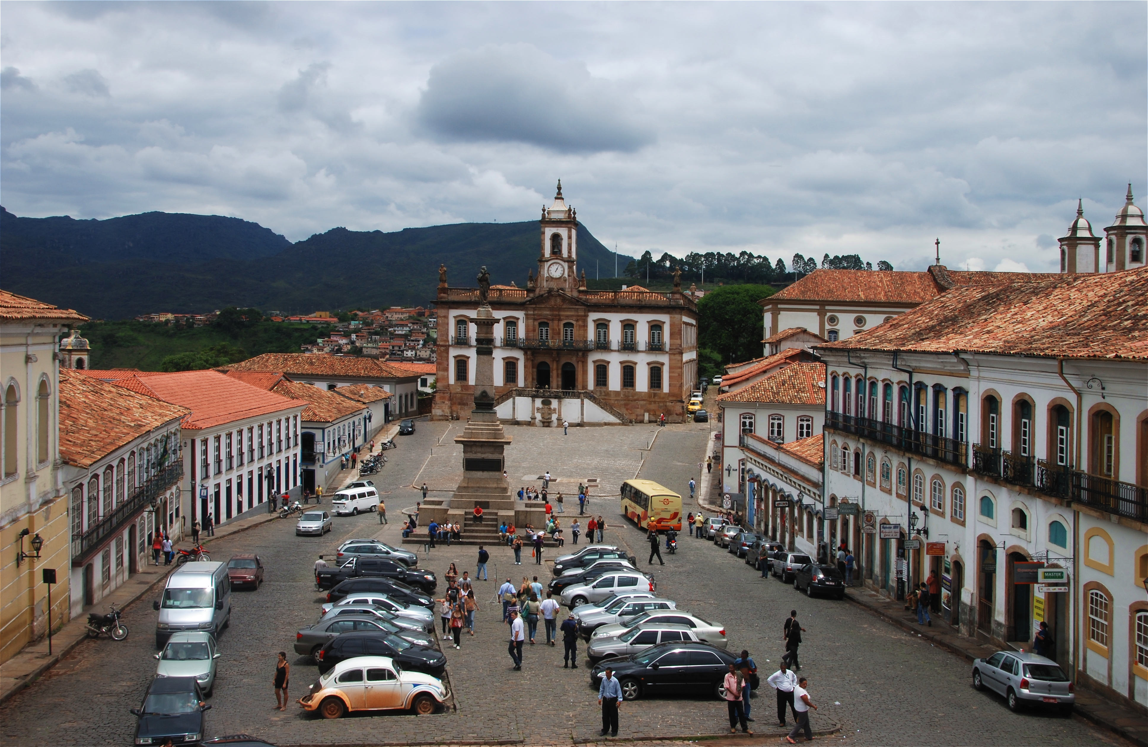 The Praça Tiradentes, view from the old School of Mines. Ouro Preto, state of Minas Gerais, Brasil